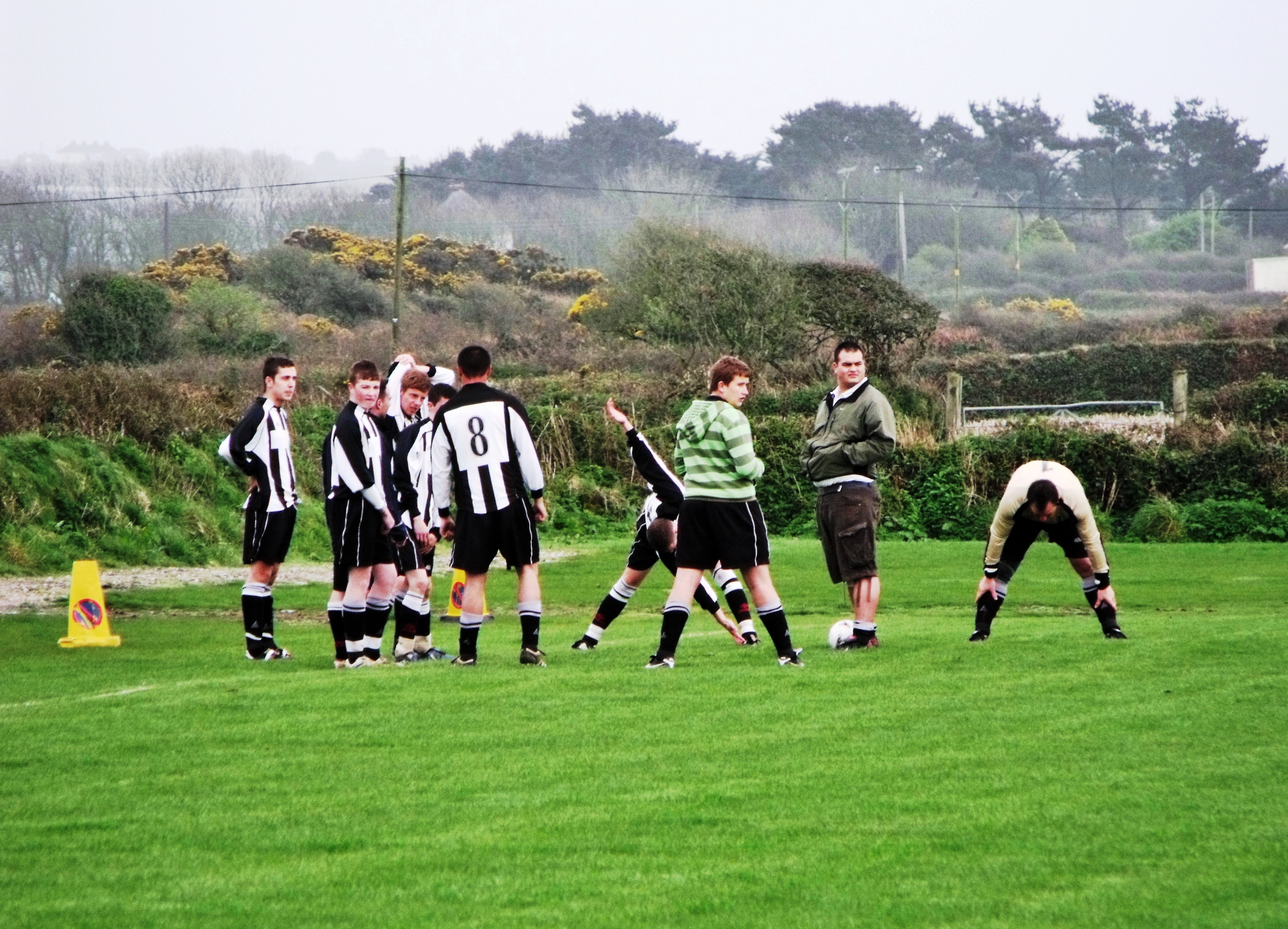 The match was being played in the Falmouth and Helston Football League. 5.04.11.